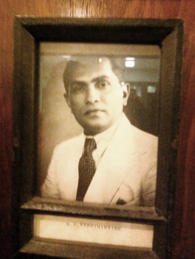 N.H. Keerthiratne portrait in parliment